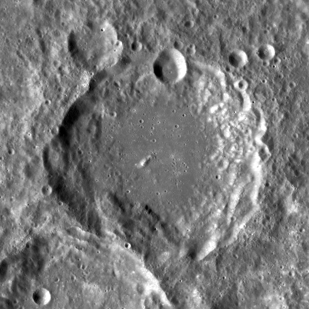 Crater Hertz on the Moon. Mosaic of photos by Lunar Reconnaissance Orbiter, made with Wide Angle Camera. Size of the image is 120×120 km, north is approximately up.